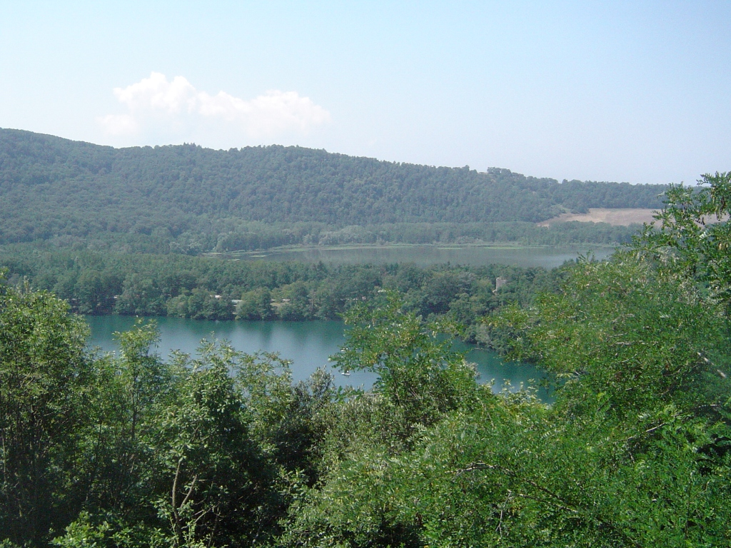 Laghi di Monticchio on Monte Vulture (PZ), Italy. On the foreground-left the Lago Piccolo ("small lake"), and on the background-right the Lago Grande ("big lake").